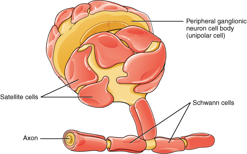 Version 8.25 from the Textbook OpenStax Anatomy and Physiology Published May 18, 2016